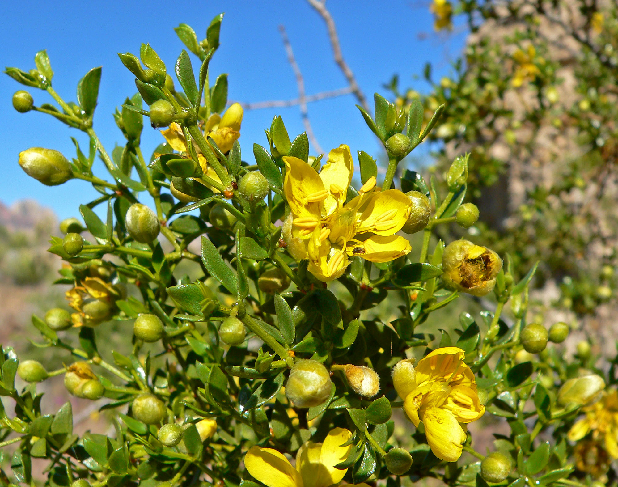 Larrea tridentata (creosote bush) in Red Rock Canyon, Nevada.